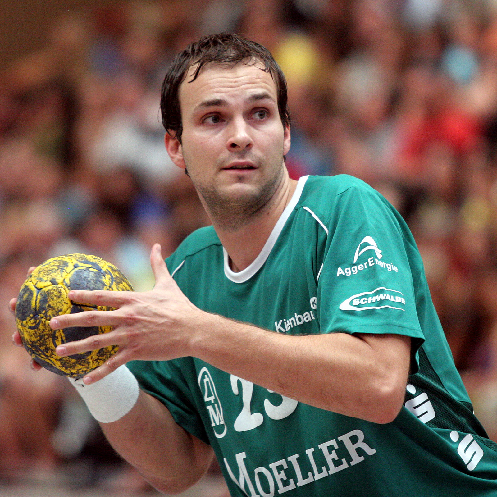 Viktor Szilágyi, Austrian handball player from VfL Gummersbach, on August 30th, 2008 in Ehingen prior a game for the Schlecker Cup 2008